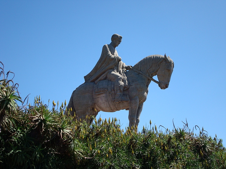 Statue of Artigas in Parque Artigas, Minas, Lavalleja Department, Uruguay.